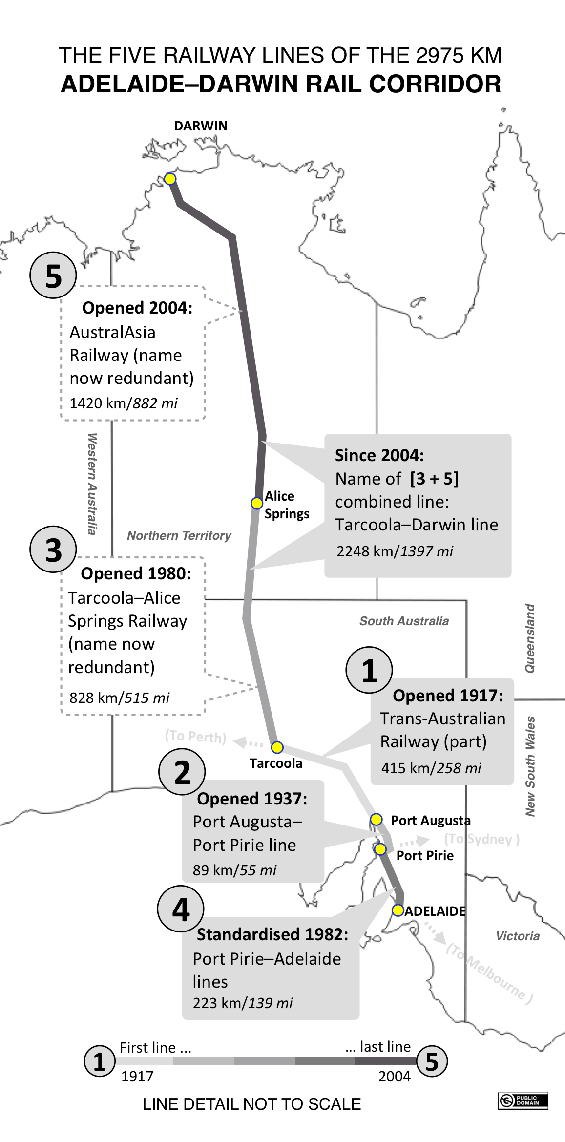 Map (not to scale) of the five lines that together form Australia's north–south transcontinental rail corridor linking Adelaide and Darwin. Differing political priorities at state and federal levels, and economic factors, resulted in 87 years elapsing between completion of the first and last of these lines.